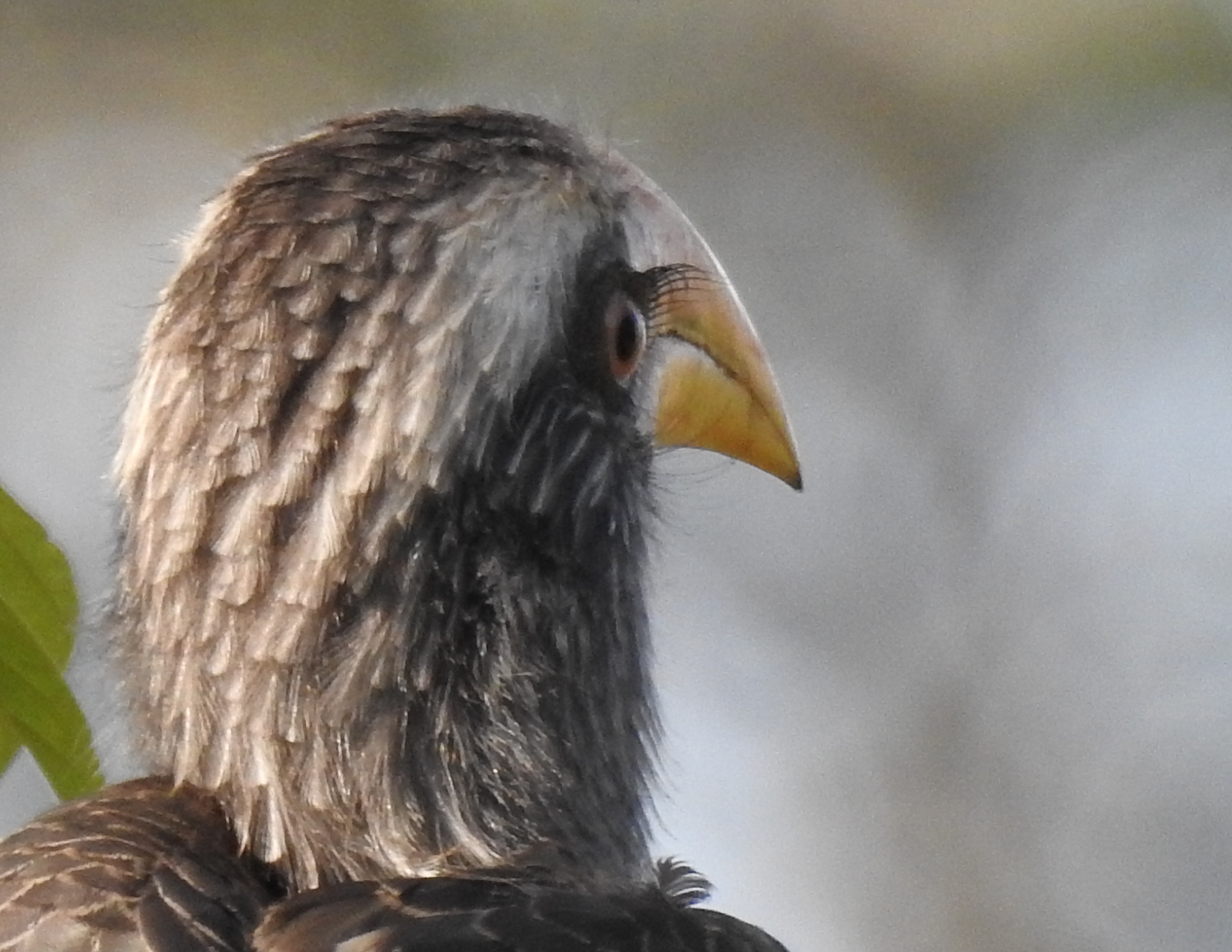 Close up showing eyelashes on a Malabar Grey Hornbill in the Valparai plateau, Anamalai hills, Western Ghats, India